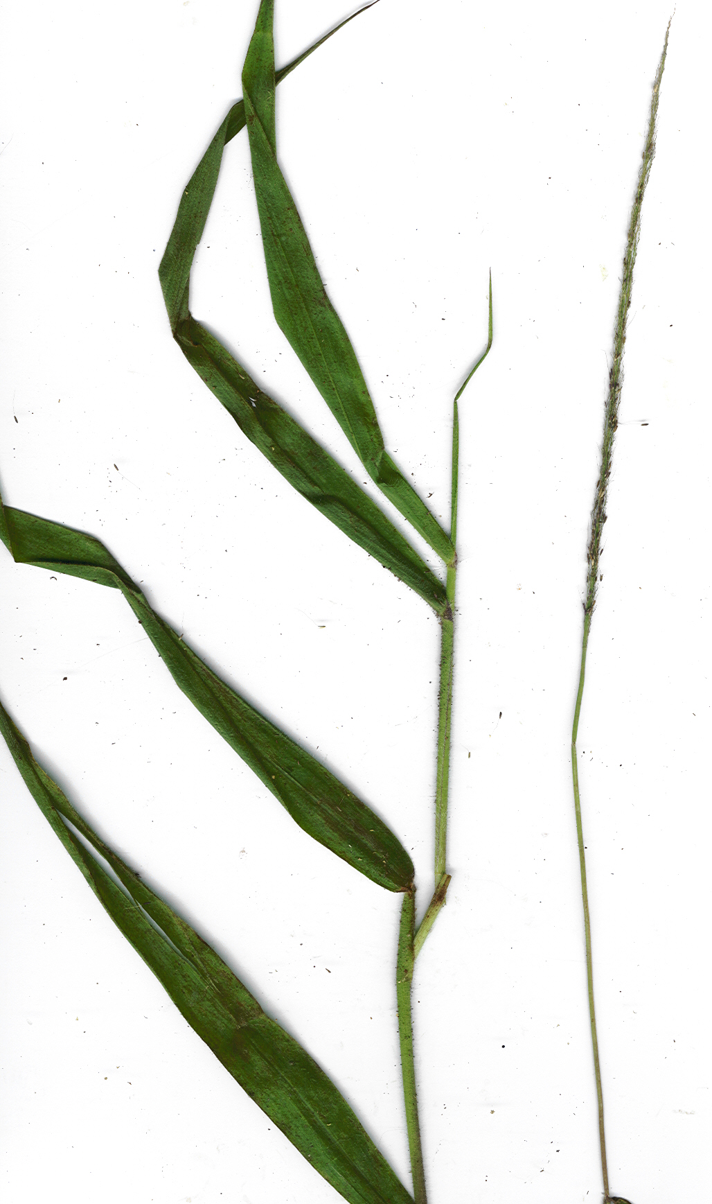 Melinis minutiflora (plant). Location: Kahoolawe, North trail